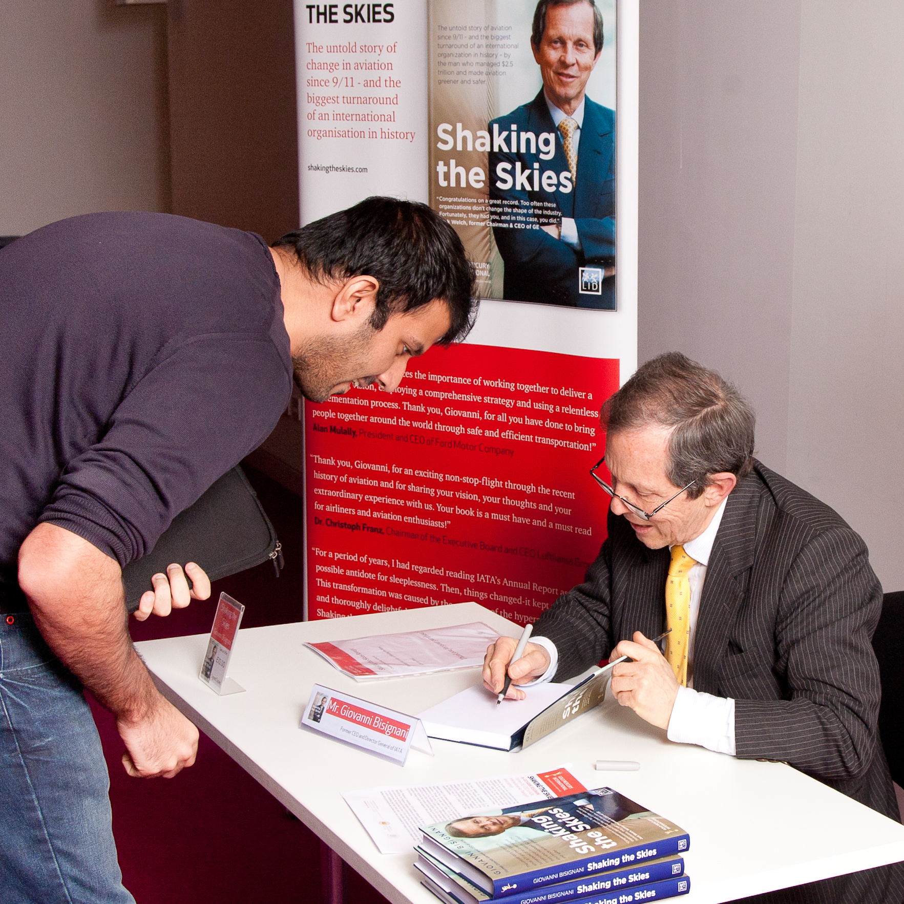 Giovanni Bisignani, ex-DG of IATA presents his book "Shaking the Skies" to students and alumni of the Centre for Air Transport Management at Cranfield University